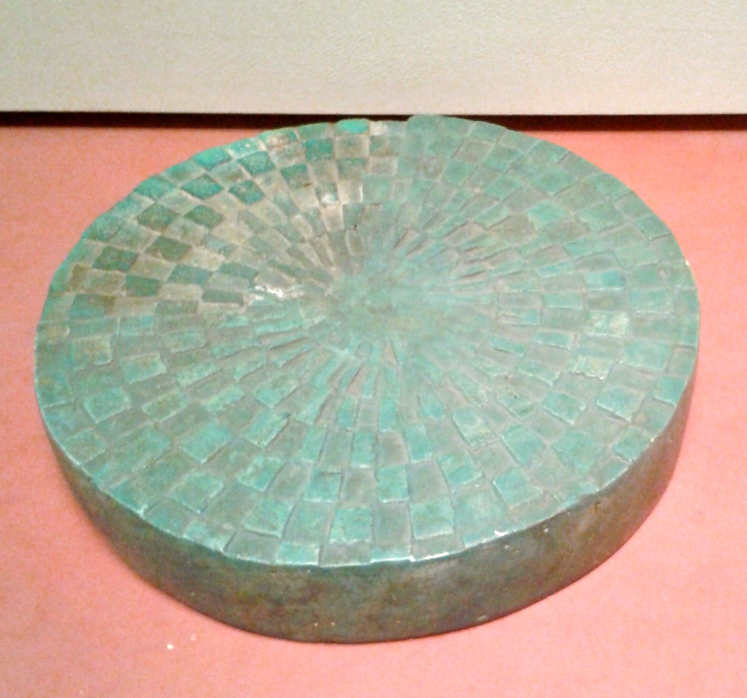 Mehen game board from the tomb of Seth Peribsen in Abydos, on display at the Louvres museum.